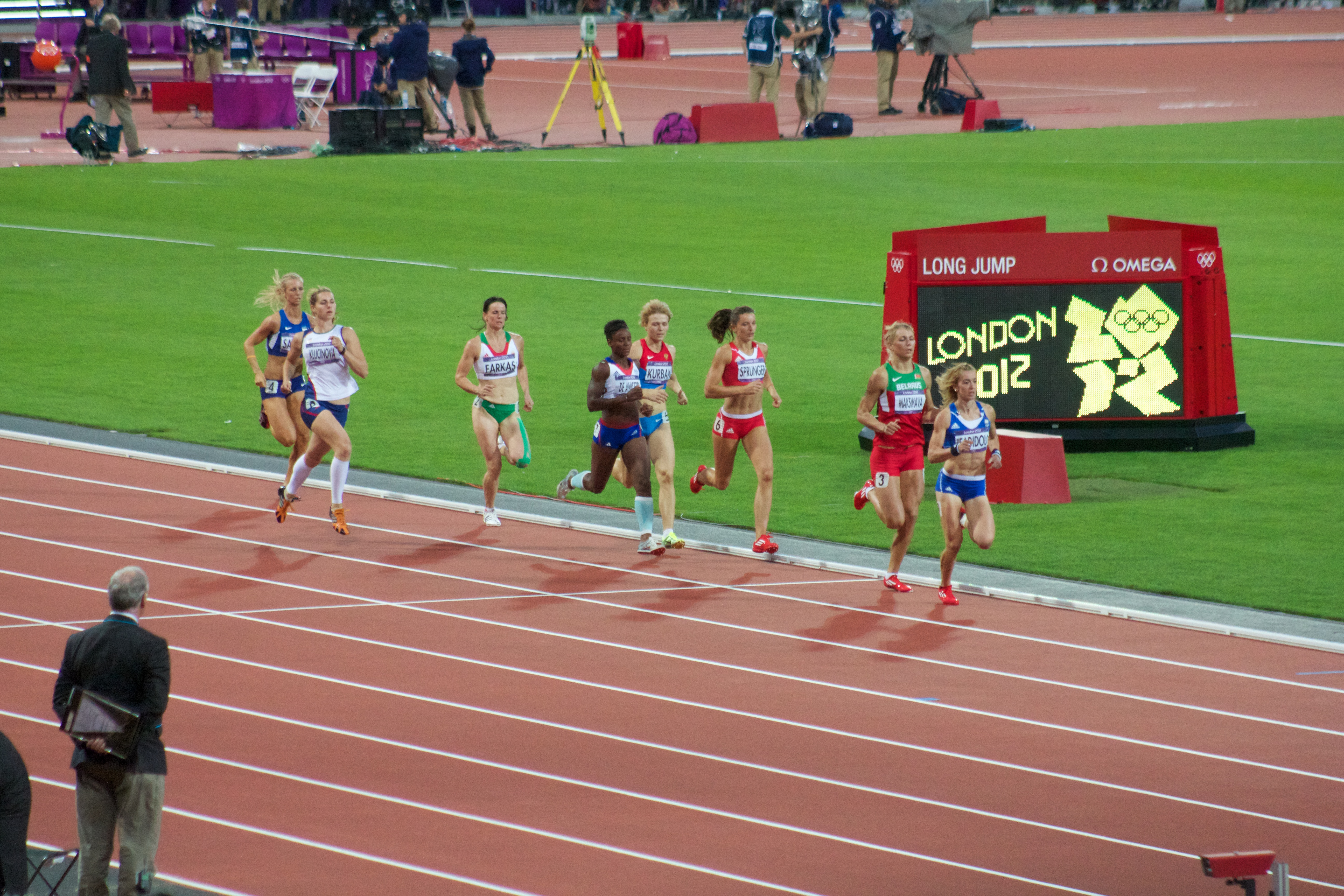 2012 Summer Olympics - Women's Heptathlon - 800 m - heat 2 left to right: Grit Šadeiko (EST) Eliška Klučinová (CZE) Györgyi Farkas (HUN) Marisa De Aniceto (FRA) Olga Kurban (RUS) Ellen Sprunger (SUI) Yana Maksimava (BLR) Sofia Ifadidou (GRE)